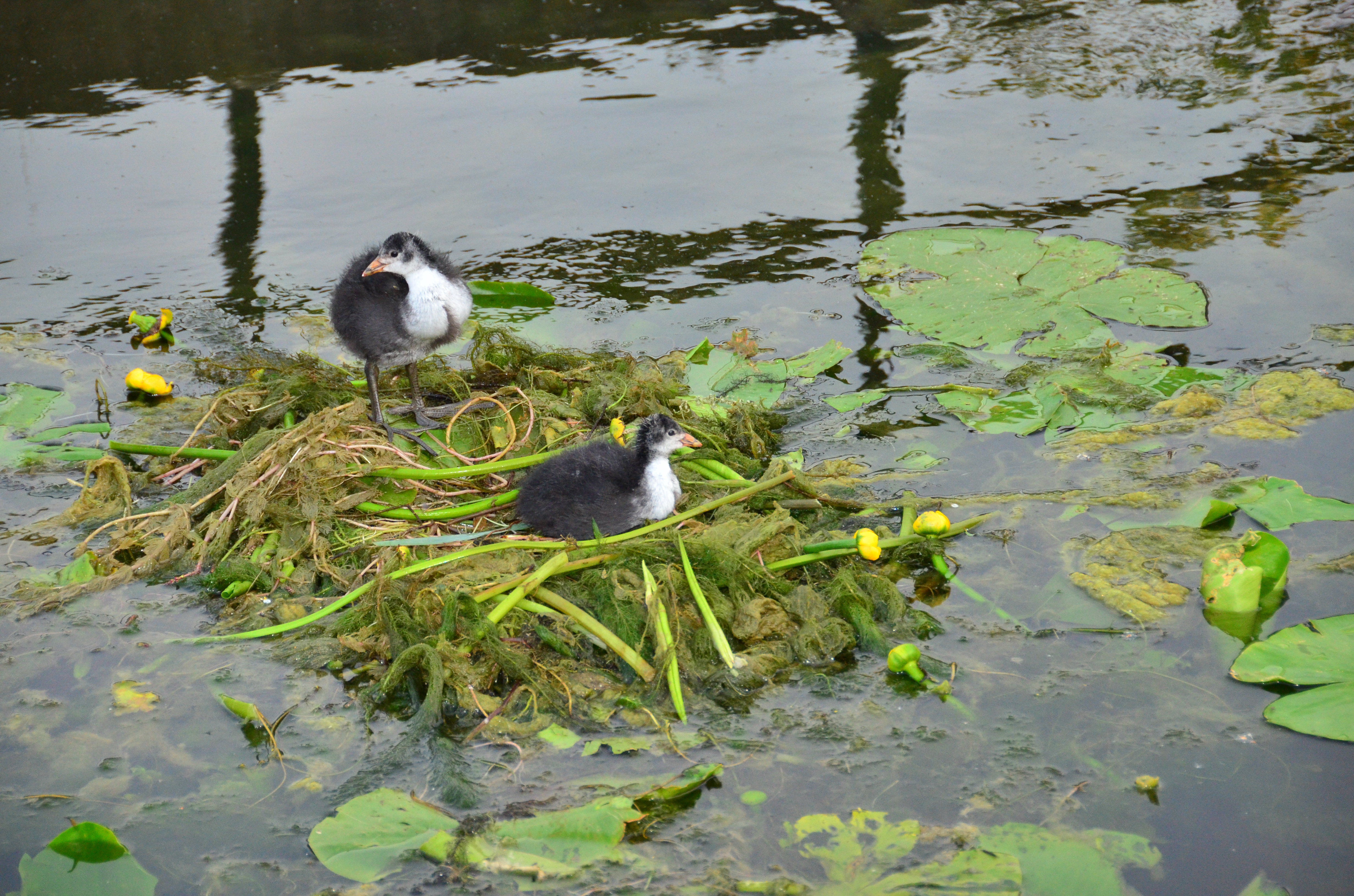 Eurasian Coot (Fulica Atra) juveniles, Houten, The Netherlands